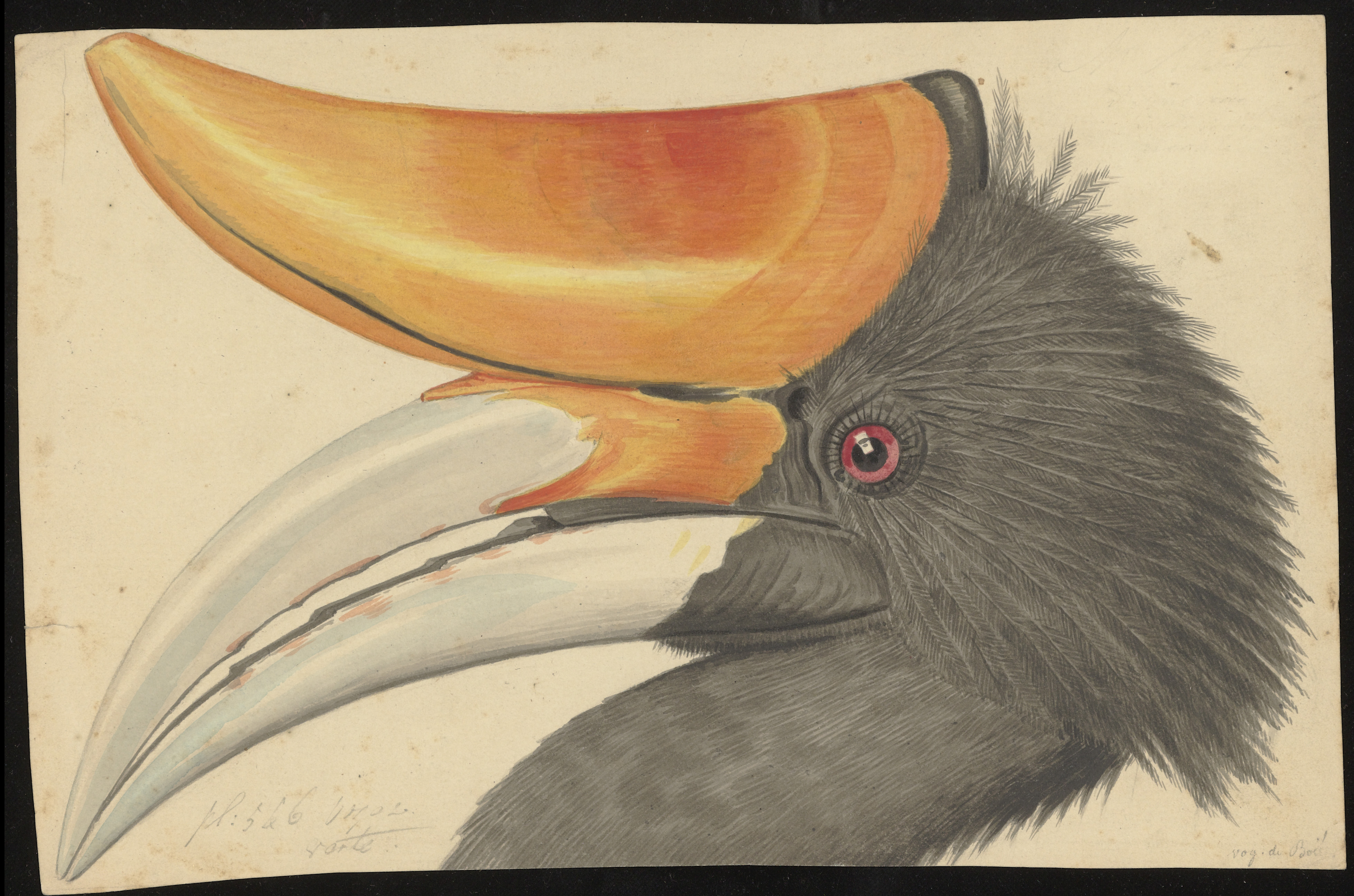 Drawing of a bird head